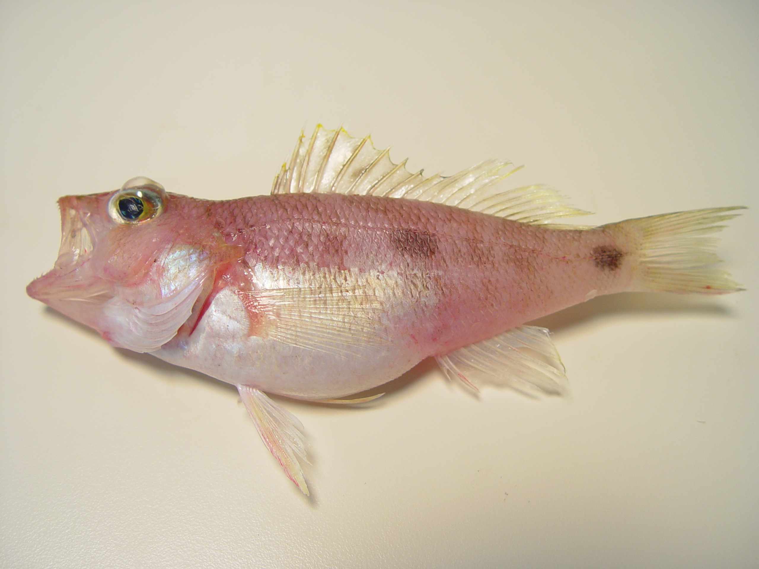 Centropristis fuscula from the Gulf of Mexico